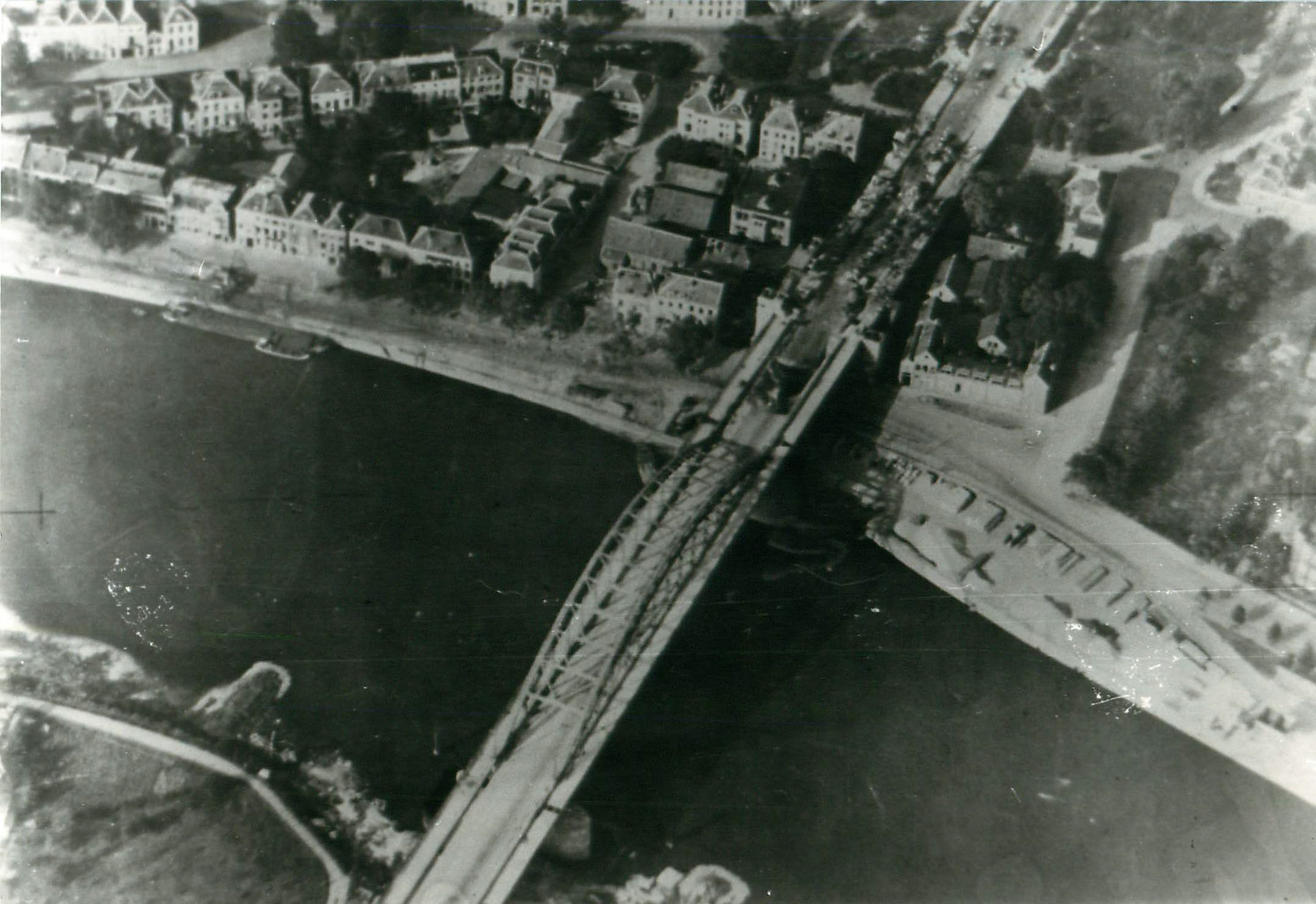 Aerial view of the bridge over the Neder Rijn, Arnhem; British troops and destroyed German armoured vehicles are visible at the north end of the bridge. Had General Montgomery's ambitious scheme for seizing the Rhine bridges succeeded, the war in Europe might have been shortened by many months. In the event, however, back-up forces were unable to come up quickly enough to enable the advanced airborne troops to hold the strategically vital bridge at Arnhem.